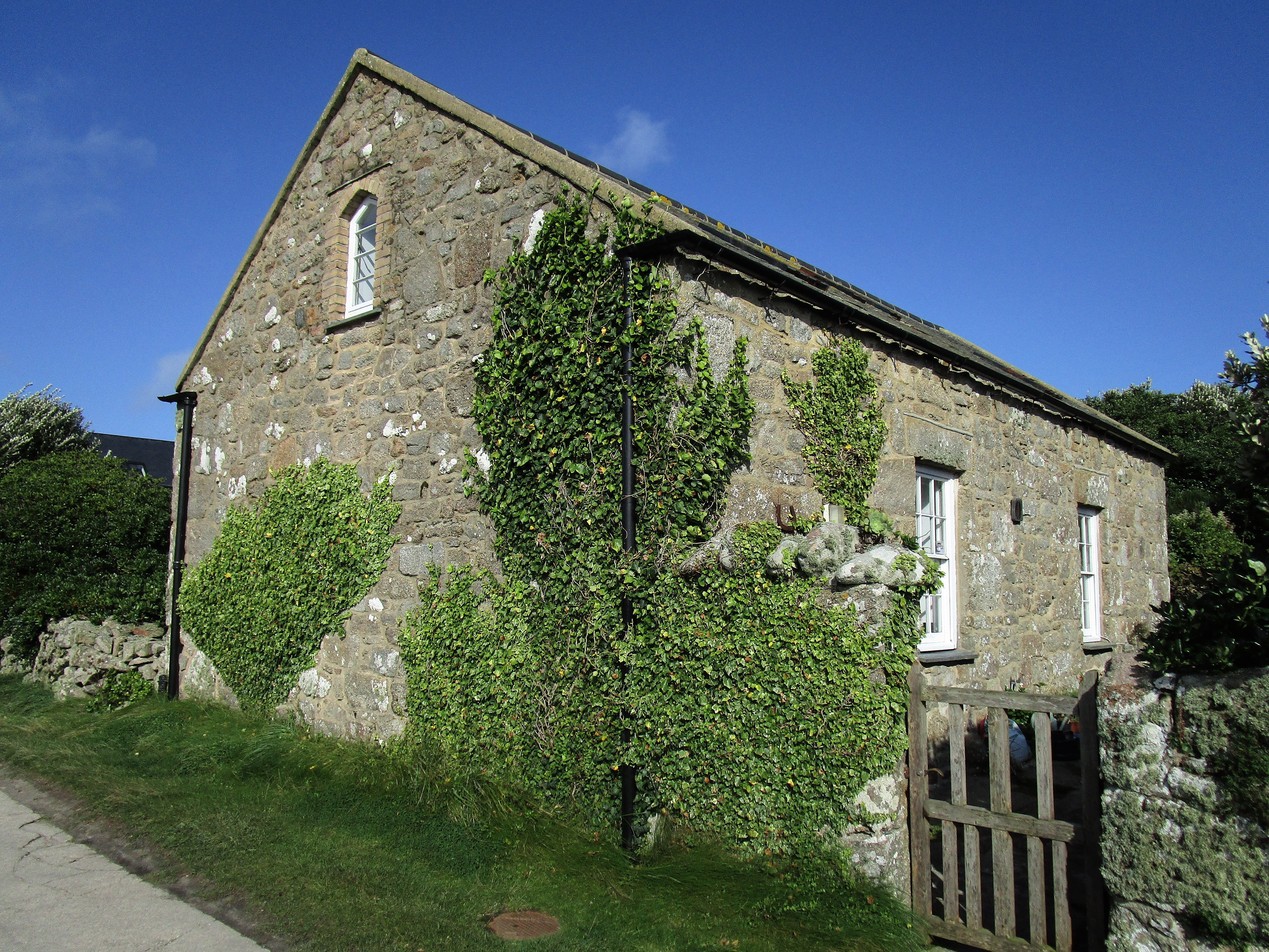 Former Baptist Church on Bryher, Isles of Scilly, built mid-1870s, converted into a private house in 1972.